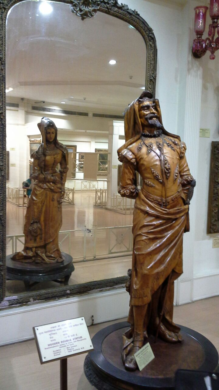 Mephistopheles & Margaretta, Wooden double sculpture at Salar Jung Museum